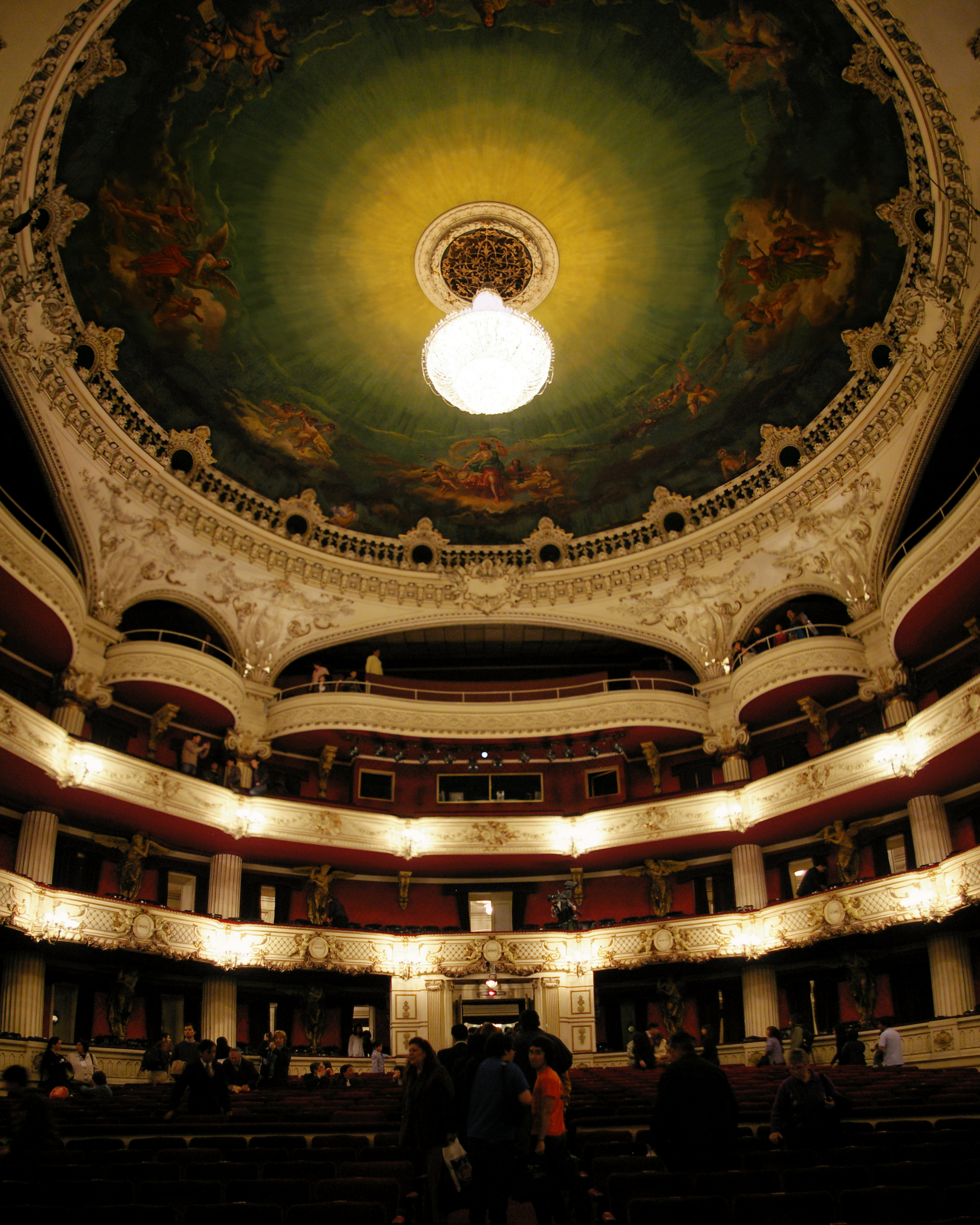 This is a photo of a national monument in Chile: 208